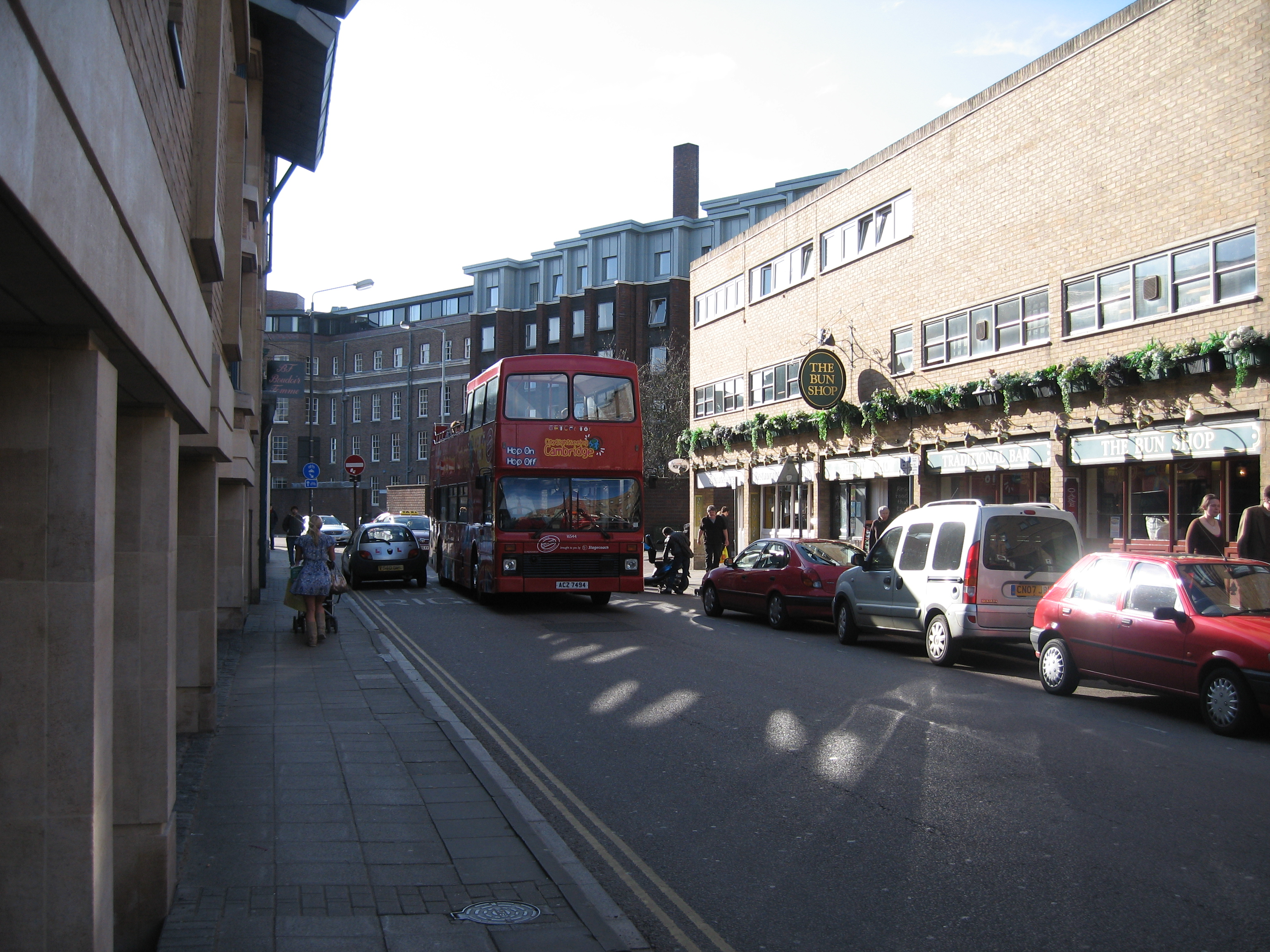 Double-decker bus on King Street, Cambridge, in front of The Bun Shop (